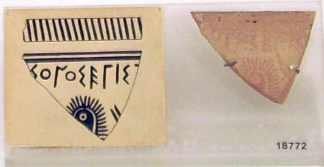 Protoattic Fragment of an inscripted plaque by the Analatos Painter with the oldest known painted inscription in greek language, about 700/675 BC., from Aigina, donated by Sir John Boardman to the National Archeological Museum Athens (18772)